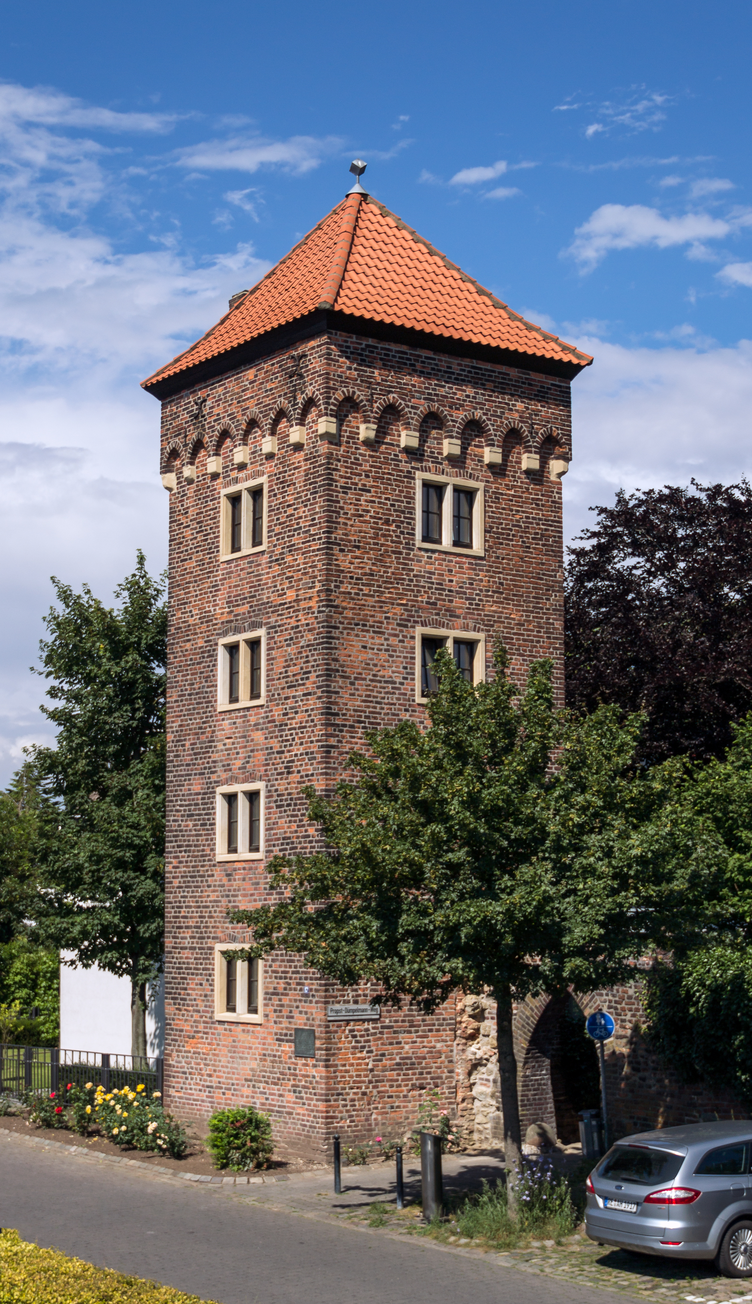 Nonnenturm in Dülmen, North Rhine-Westphalia, Germany This image shows a heritage building in Germany, located in the North Rhine-Westphalian city Dülmen (no. 18).